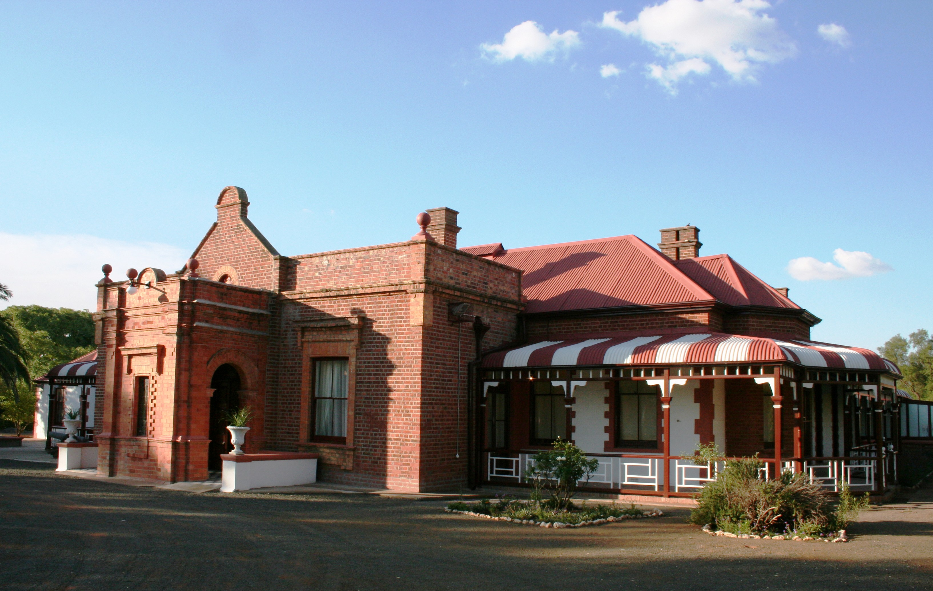 This media shows a South African Protected Site with SAHRA file reference 9/2/049/0023.